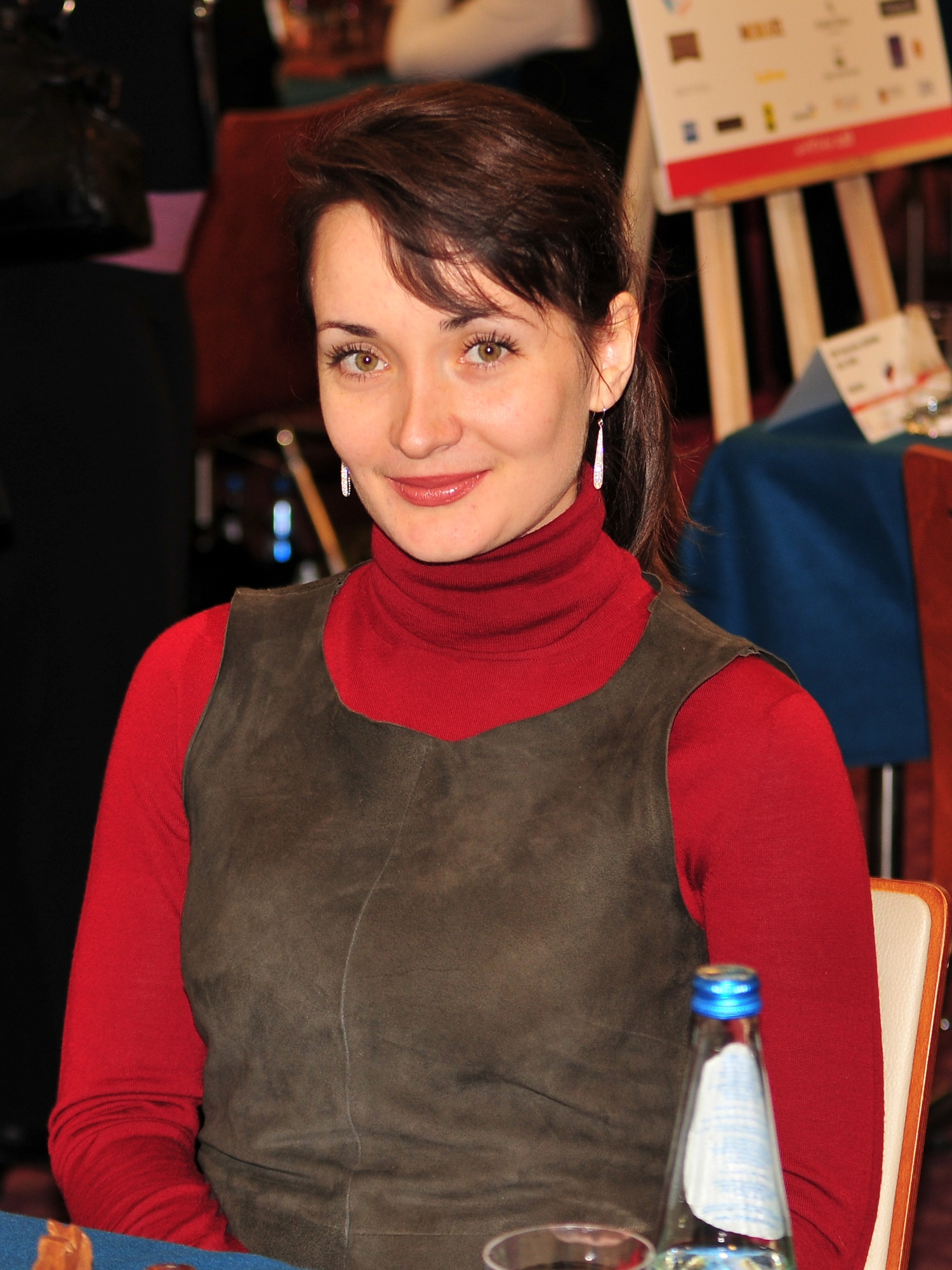 GM Kateryna Lahno, European Chess Team Championship Warsaw 2013